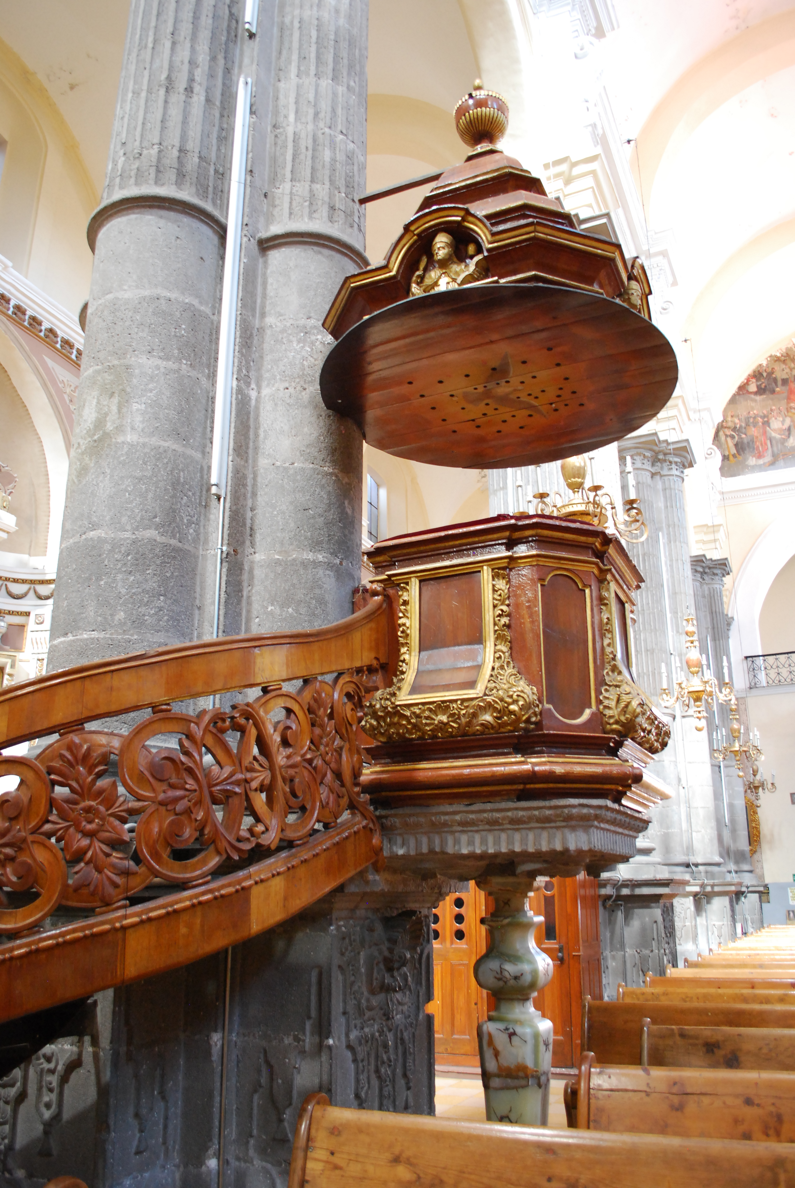 Pulpit at the La Compañia Church in Puebla, Mexico